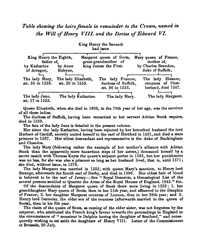 Book page from The chronicle of Queen Jane: and of two years of Queen Mary, edited 1850 by John Gough Nichols, with explanation of the effect of the will of Henry VIII on the succession to the English throne.